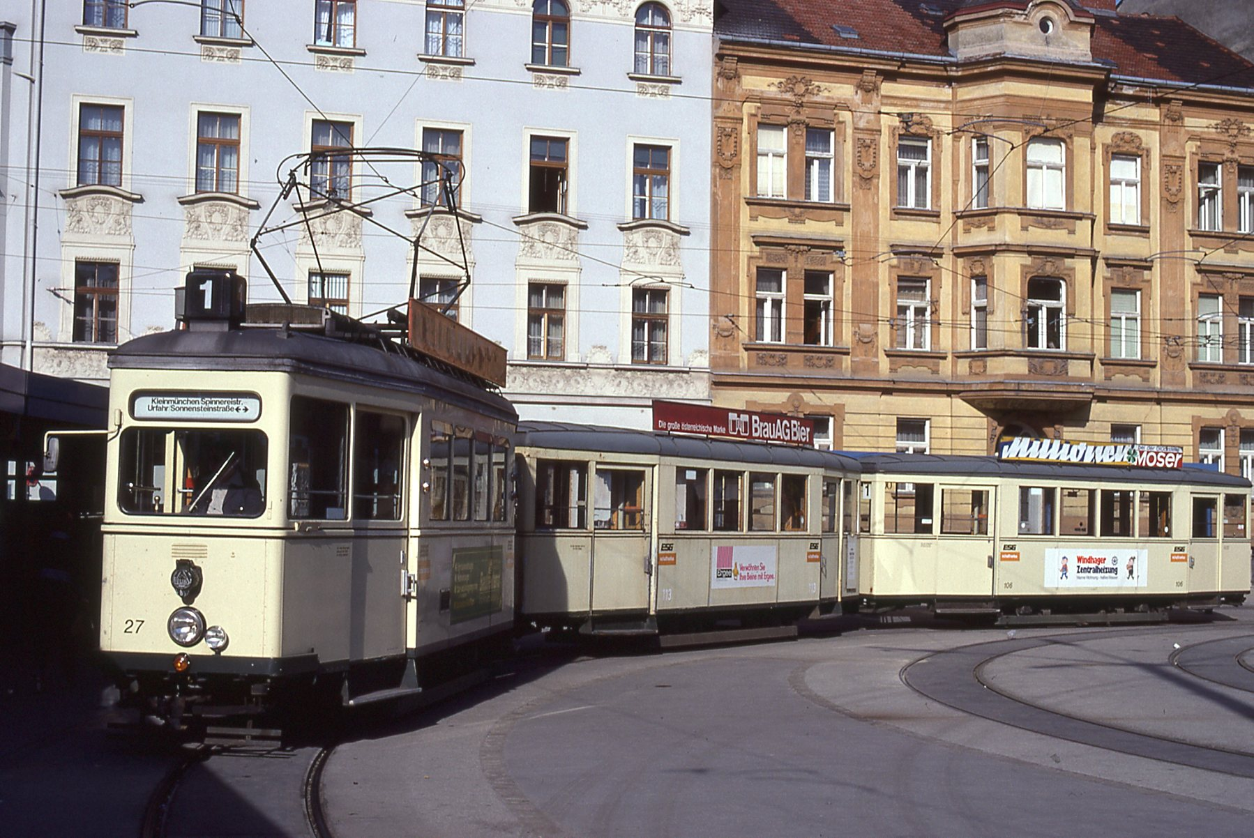 Tramway Linz, train with car 27 and two trailers on line 1.